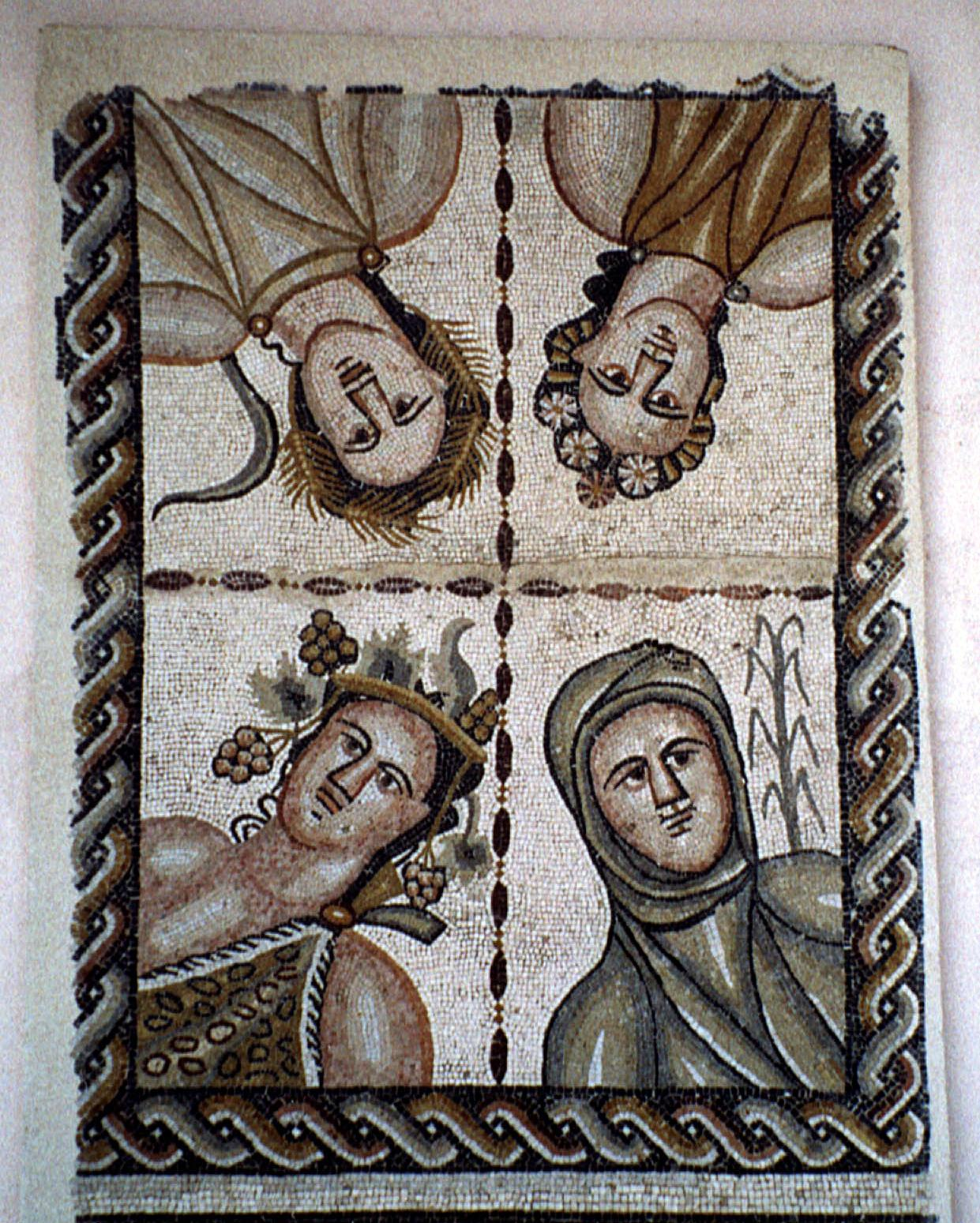 The Four Seasons (late 4th century), a mosaic from the ‘House of Bacchus’ (Casa de Baco), a domus in the Hispano-Roman town of Complutum (now in Alcalá de Henares, near Madrid). Counterclockwise from top right: spring, summer, autumn and winter. It is now in the Regional Archaeological Museum, Alcalá.